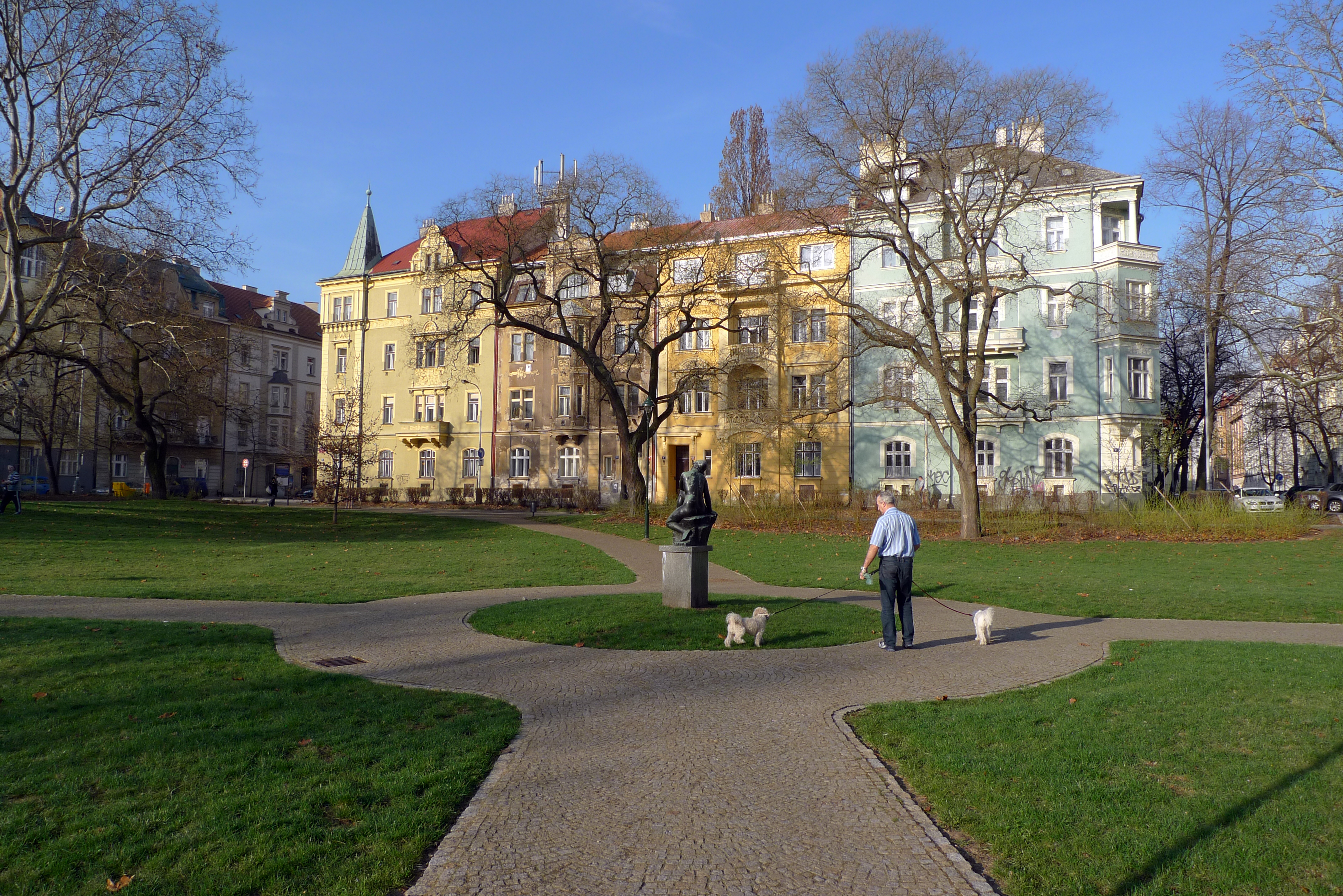 Kaizl park, Prague 8-Karlín, Czech Republic